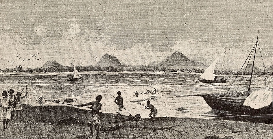 Natives fishing in the vicinity of Assab, Eritrea, Mount Ganga in the background, engraving from a sketch by G B Licata, from L'Illustrazione Italiana, year 12, no 11, March 15, 1885.